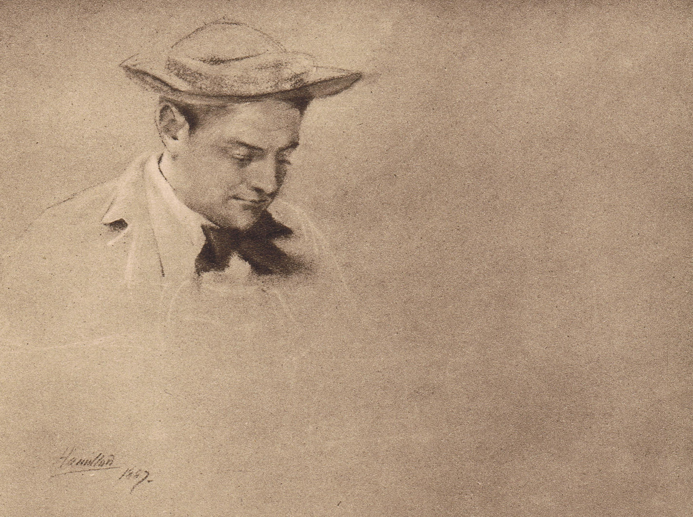 Scan of plate (cropped version) facing p. 122 from Men I Have Painted by John McLure Hamilton. A portrait of Alfred Gilbert by Mr. Hamilton. From a painting in pastels. Designed for the National Portrait Gallery